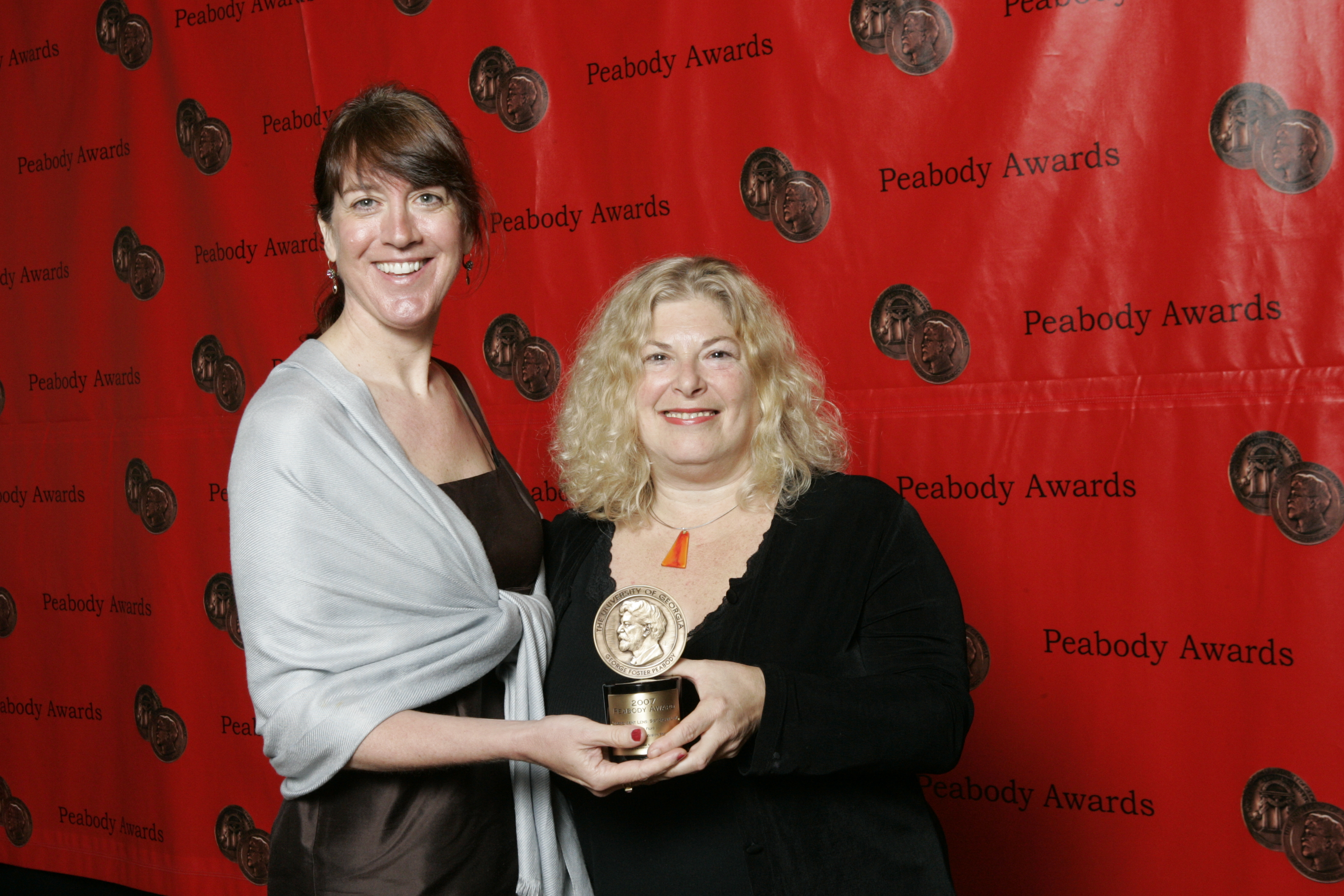 Lois Vossen and Debra Zimmerman 67th Annual Peabody Awards Luncheon Waldorf=Astoria Hotel New York, NY USA June 16, 2008